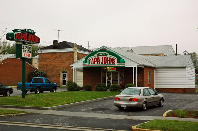 A Papa John's takeout and delivery location, located in Front Royal, Virginia.